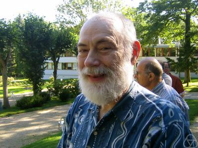 Mathematician Laurent C. Siebenmann in Bures-sur-Yvette